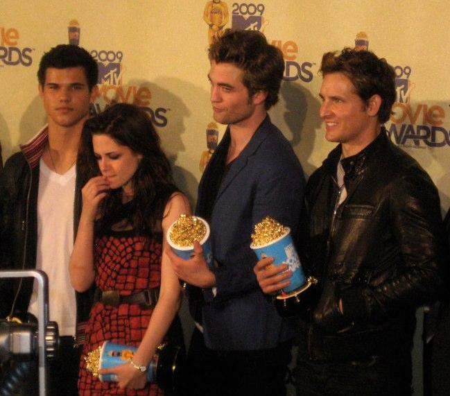 The Cast of Twilight - Kristen Stewart, Taylor Lautner and Robert Pattinson at 2009 MTV Movie Awards.